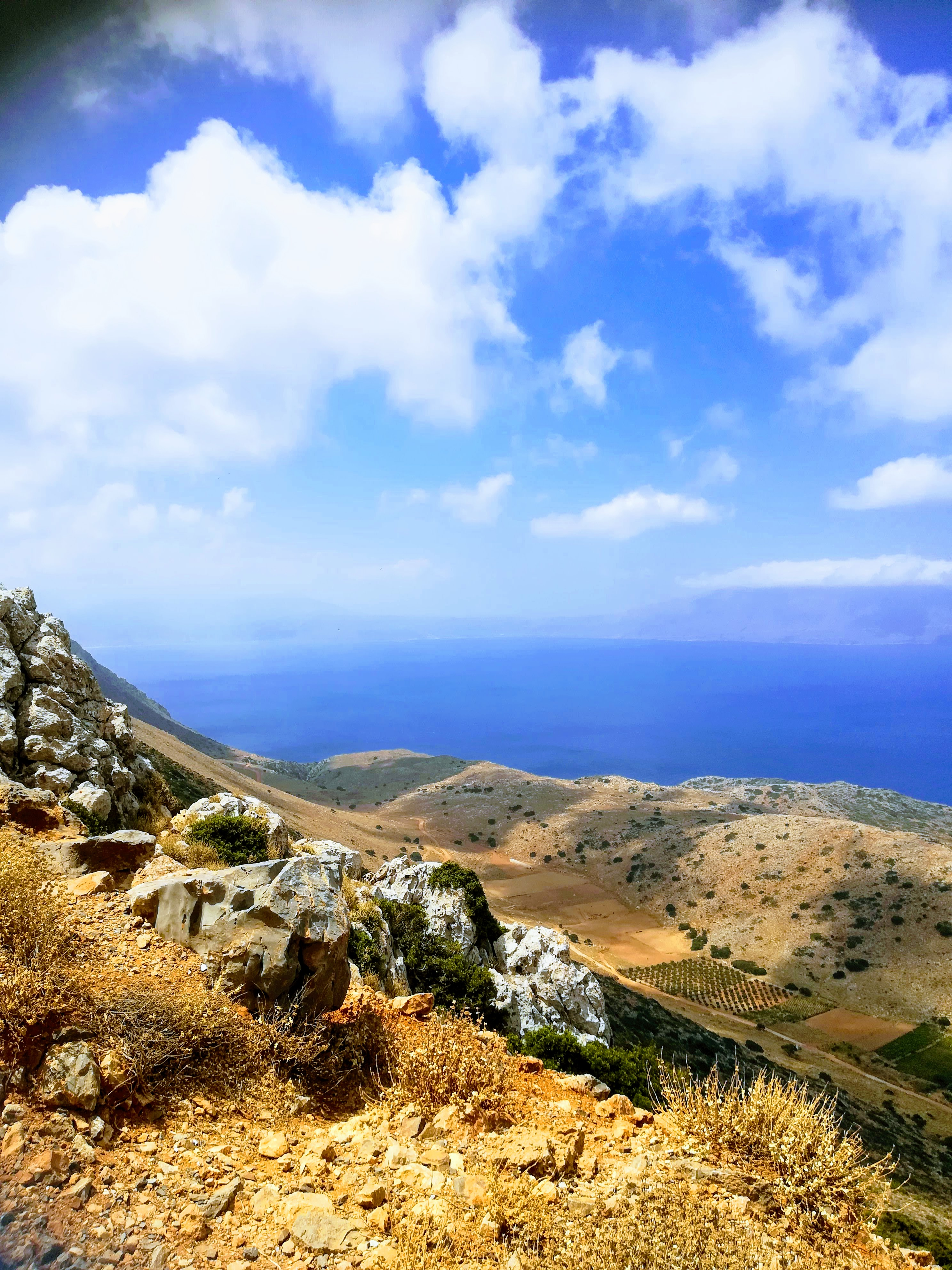 This is a photography of Natura 2000 protected area with ID GR4340021